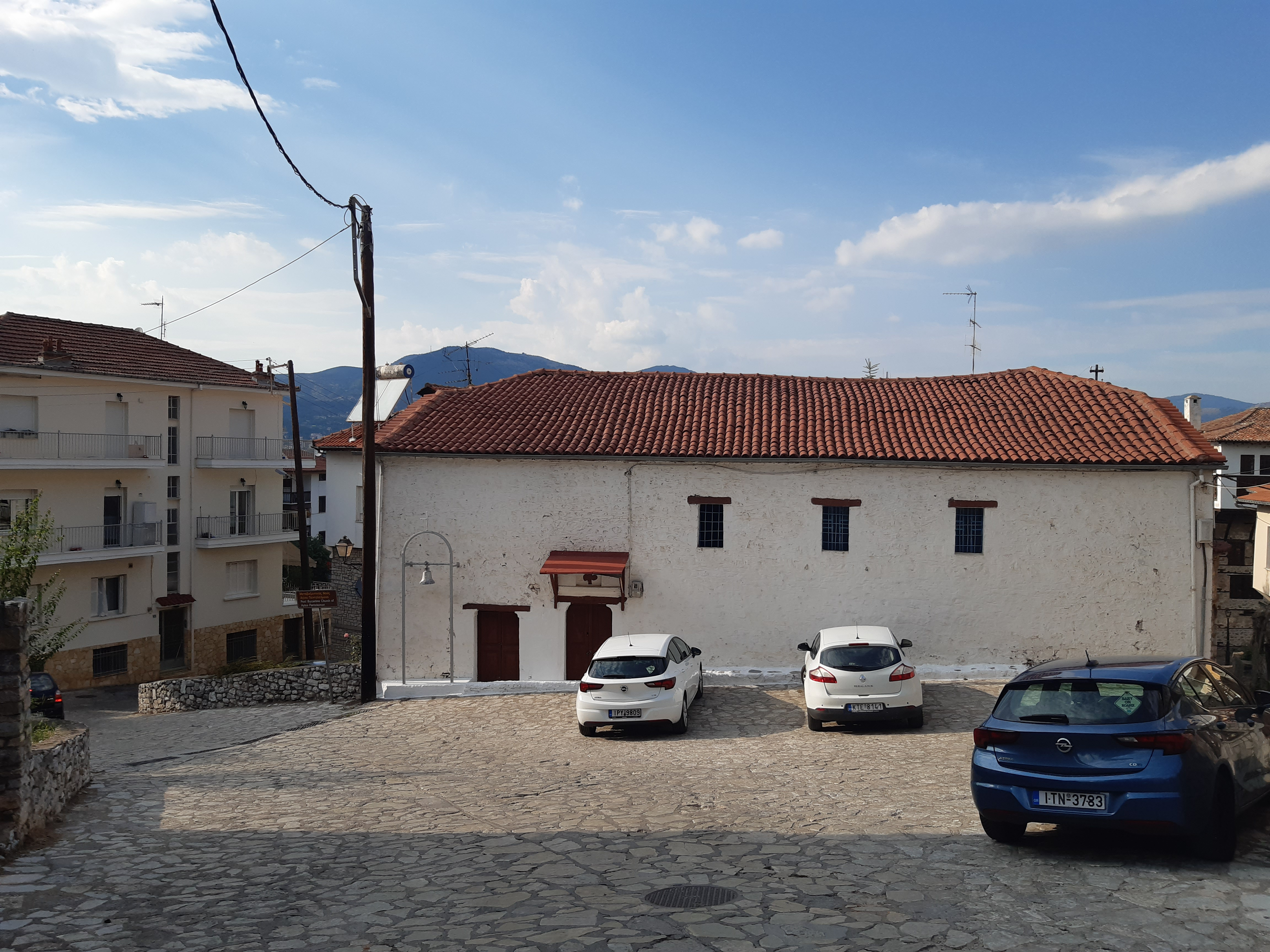 Saint Pantaleon Church in Kastoria